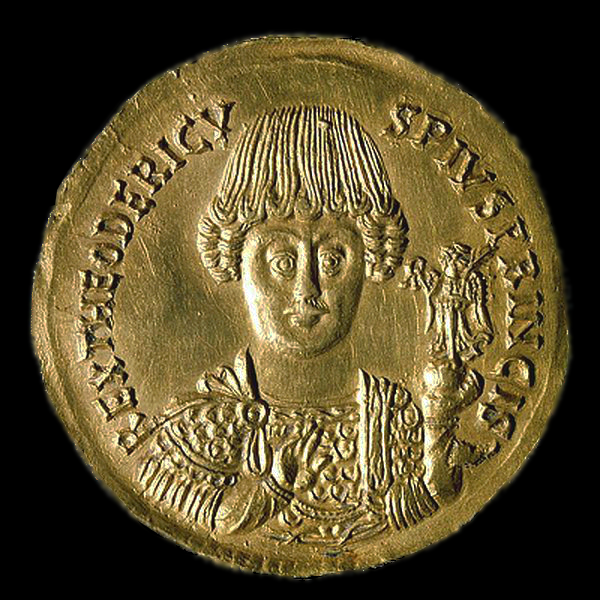 Coin depicting Flavius Theodoricus (Theodoric the Great). Roman Vassal and King of the Ostrogoths. It is only known a single piece of this coin, from the collection of Victor Emmanuel III of Italy, now in Palazzo Massimo, Rome